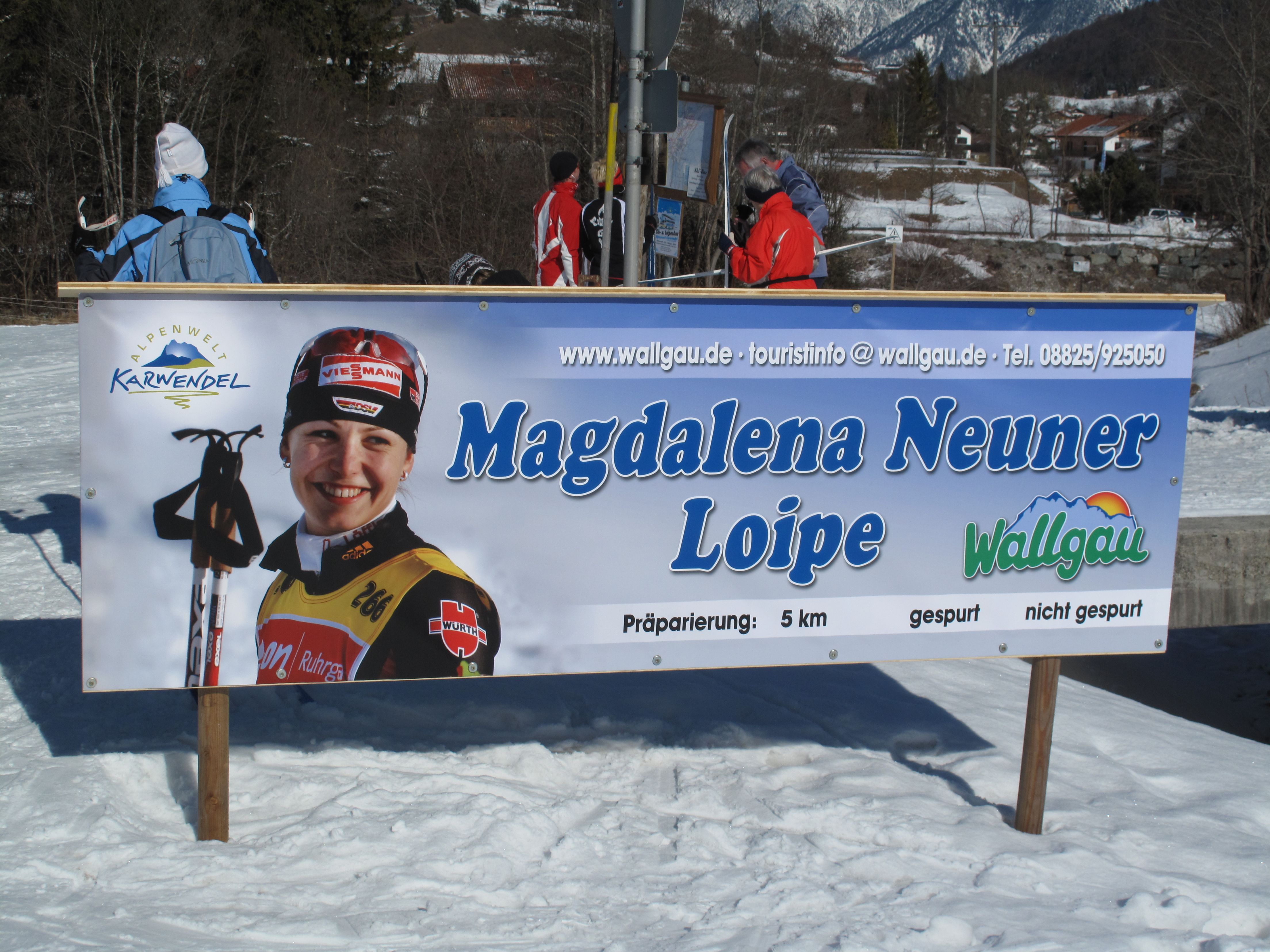 Magdalena Neuner Loipe, Wallgau, Germany